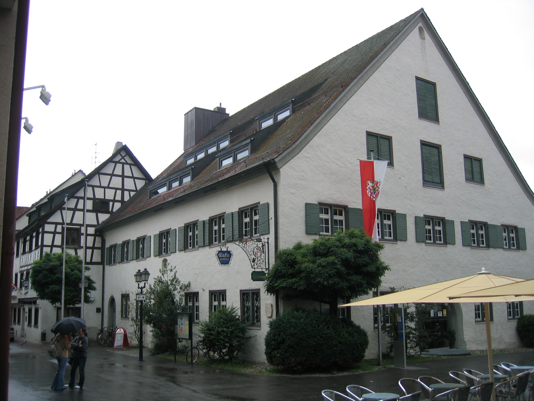 Altes Kornhaus (historic corn magazine) with café and Alamannenmuseum in Wengartgen, Württemberg, Germany